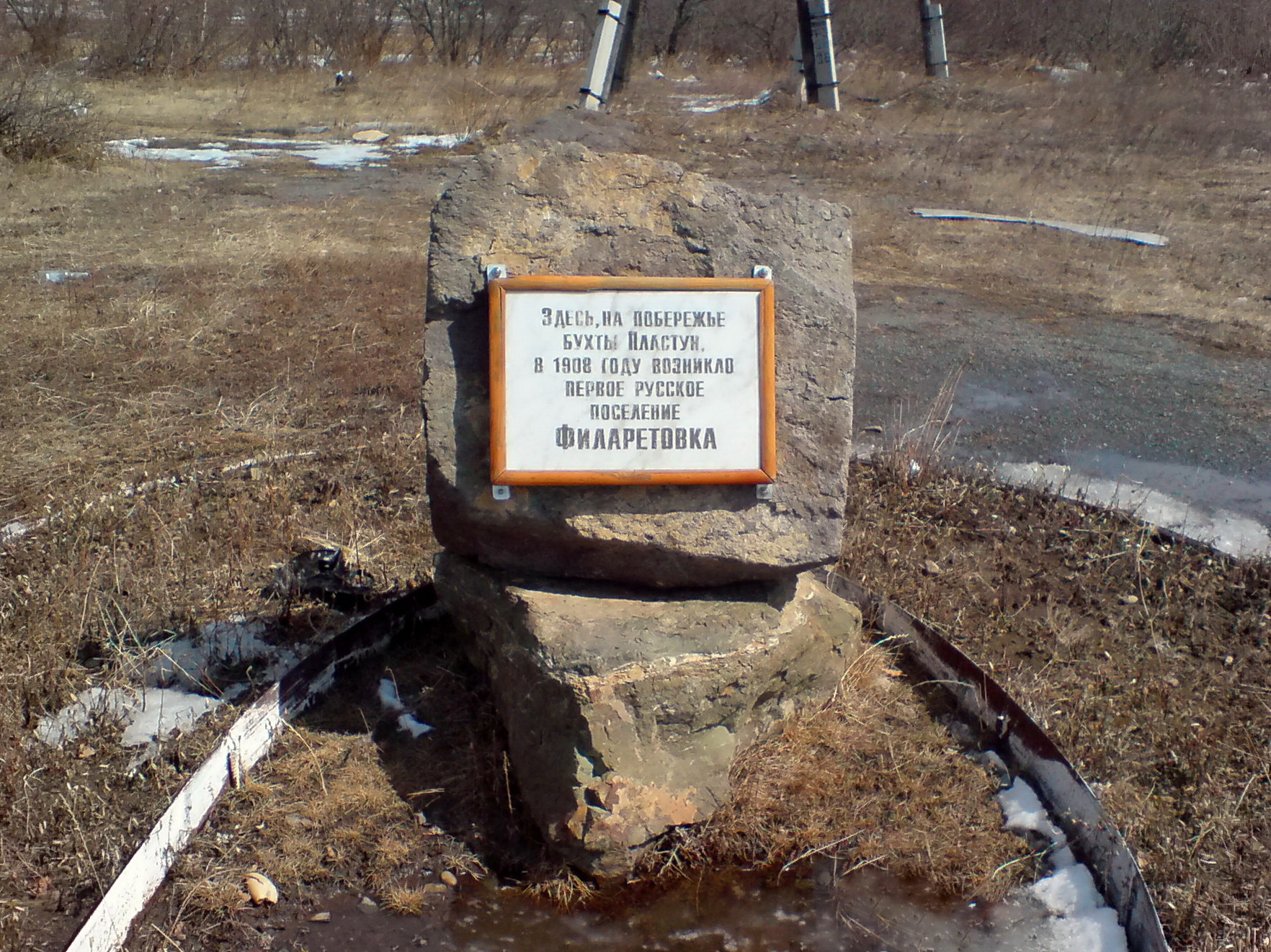 A memorial sign in honor of the first russian settlement on the coast of the Bay of Plastun (installed near the building of administration of the Plastun urban settlement).